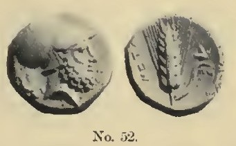 Greek coins and their parent cities (1902) Author: Ward, John, 1832-1912; Hill, George Francis, Sir, 1867-1948 Subject: Coins, Greek; Numismatics, Greek; Greece -- Description, geography; Italy -- Description and travel; Turkey -- Description and travel Publisher: London : Murray Possible copyright status: NOT_IN_COPYRIGHT Language: English Call number: AKB-0671 Digitizing sponsor: MSN Book contributor: Robarts - University of Toronto Collection: toronto Scanfactors: 7